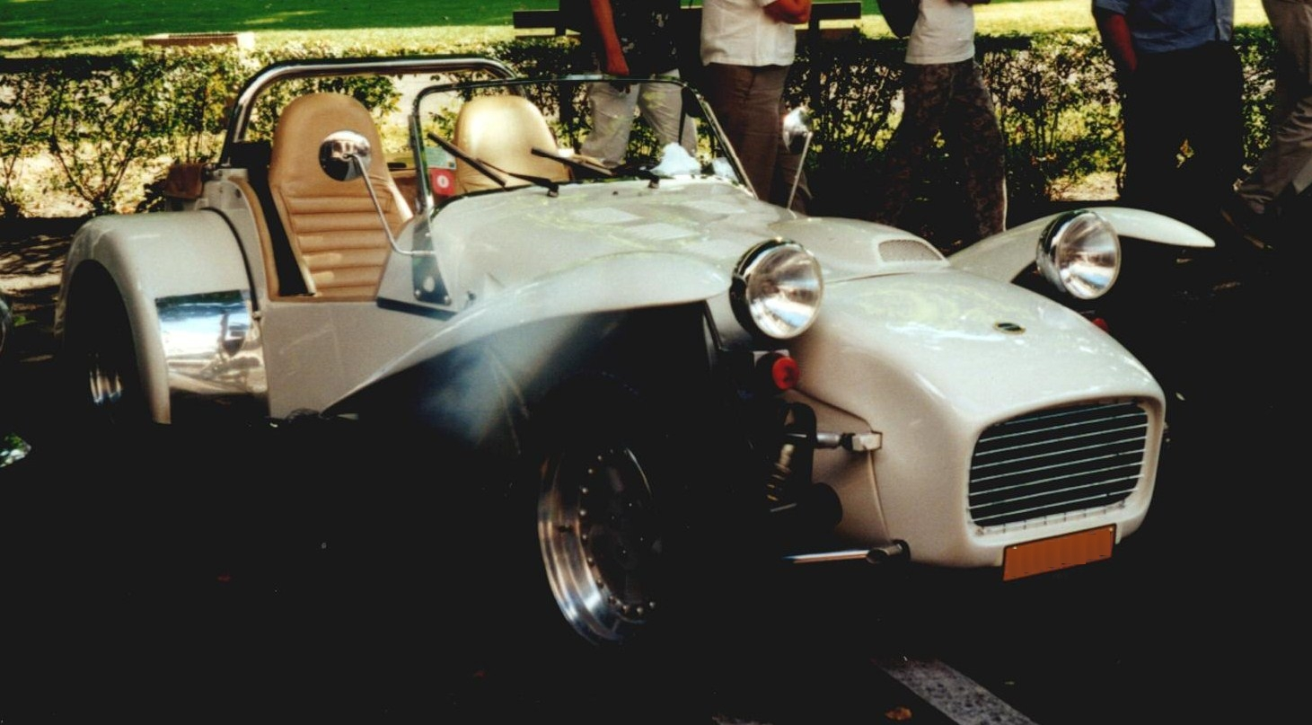 Martin Super Seven